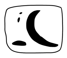 Drawing of the parietal plicae of Halongella schlumbergeri (Morlet, 1886), synonym: Plectopylis jovia (after Gude 1901).